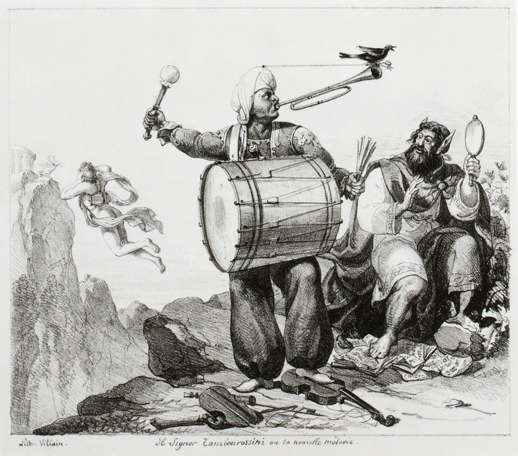 Il signor Tambourossini - caricature of Rossini's musical style. Combining the composer's name with tambour, (French for "drum") this lithograph by the French artist Paul Delaroche makes clear Rossini's European reputation as a creator of noise, with trumpet and drum accompanied by a magpie (La gazza ladra), an oriental type (Otello or maybe Il turco in Italia), and King Midas (with his ass's ears), literally trampling on sheet-music and violins, while Apollo (the god of music) makes his escape in the background[1]